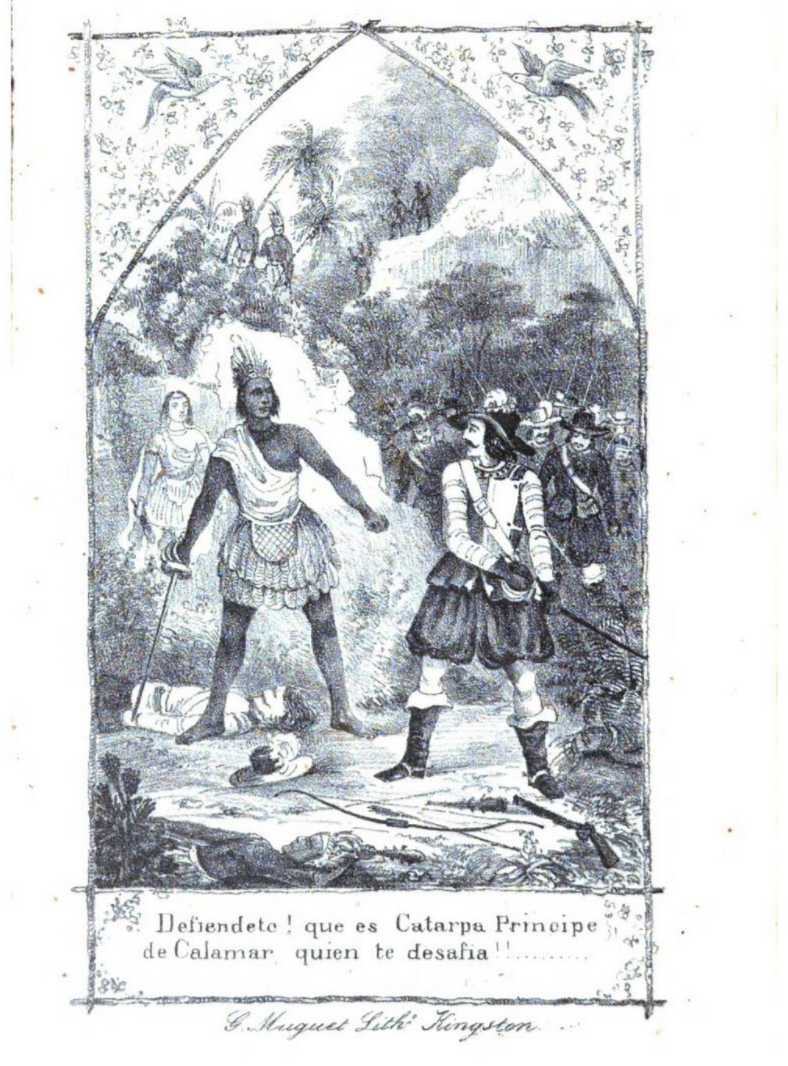 Illustration of the book "Ingermina o la hija de Calamar"